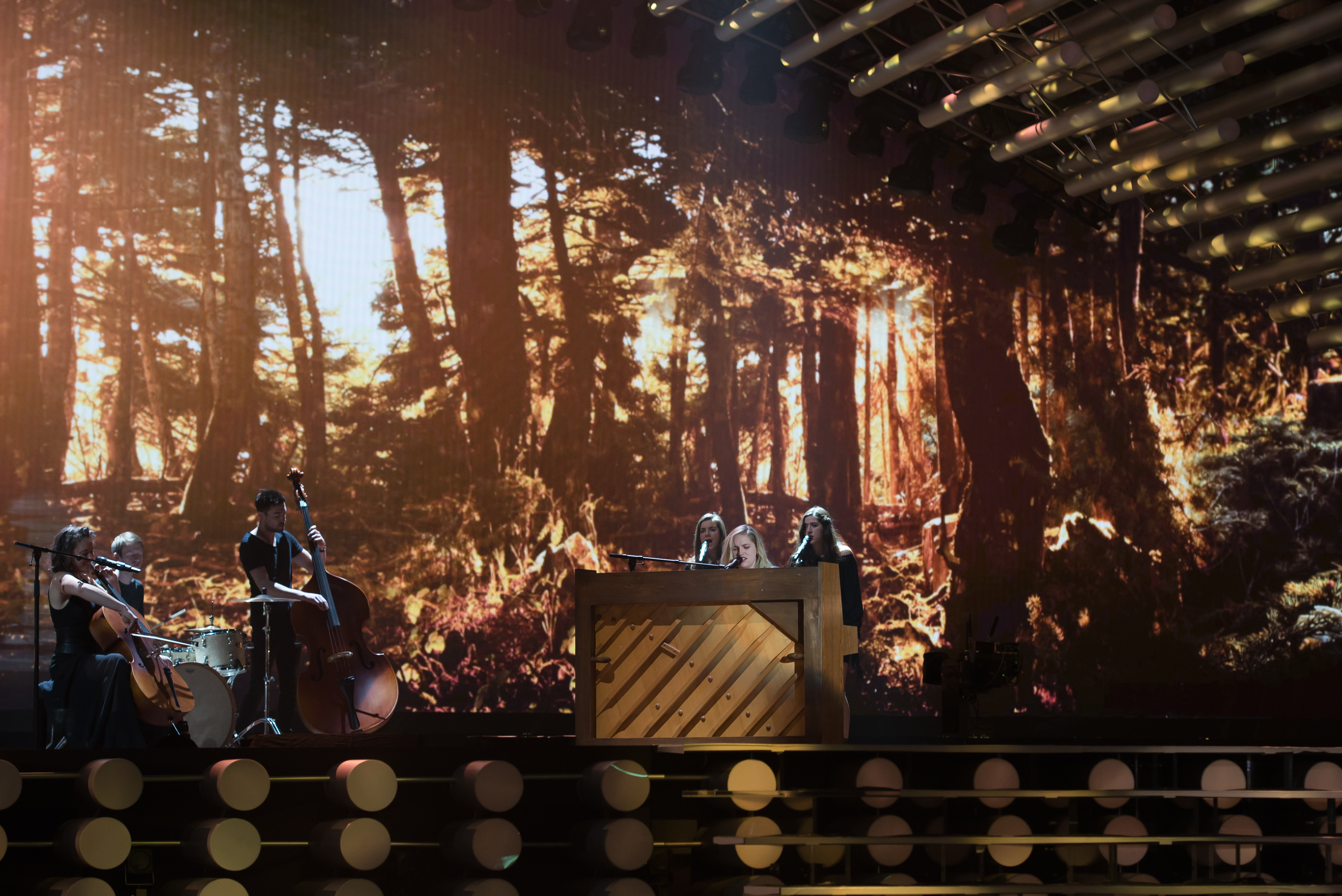 Eurovision Song Contest Vienna 2015: Molly Sterling